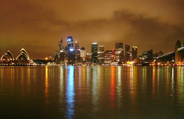 Sydney Opera House and Central Business District at night.